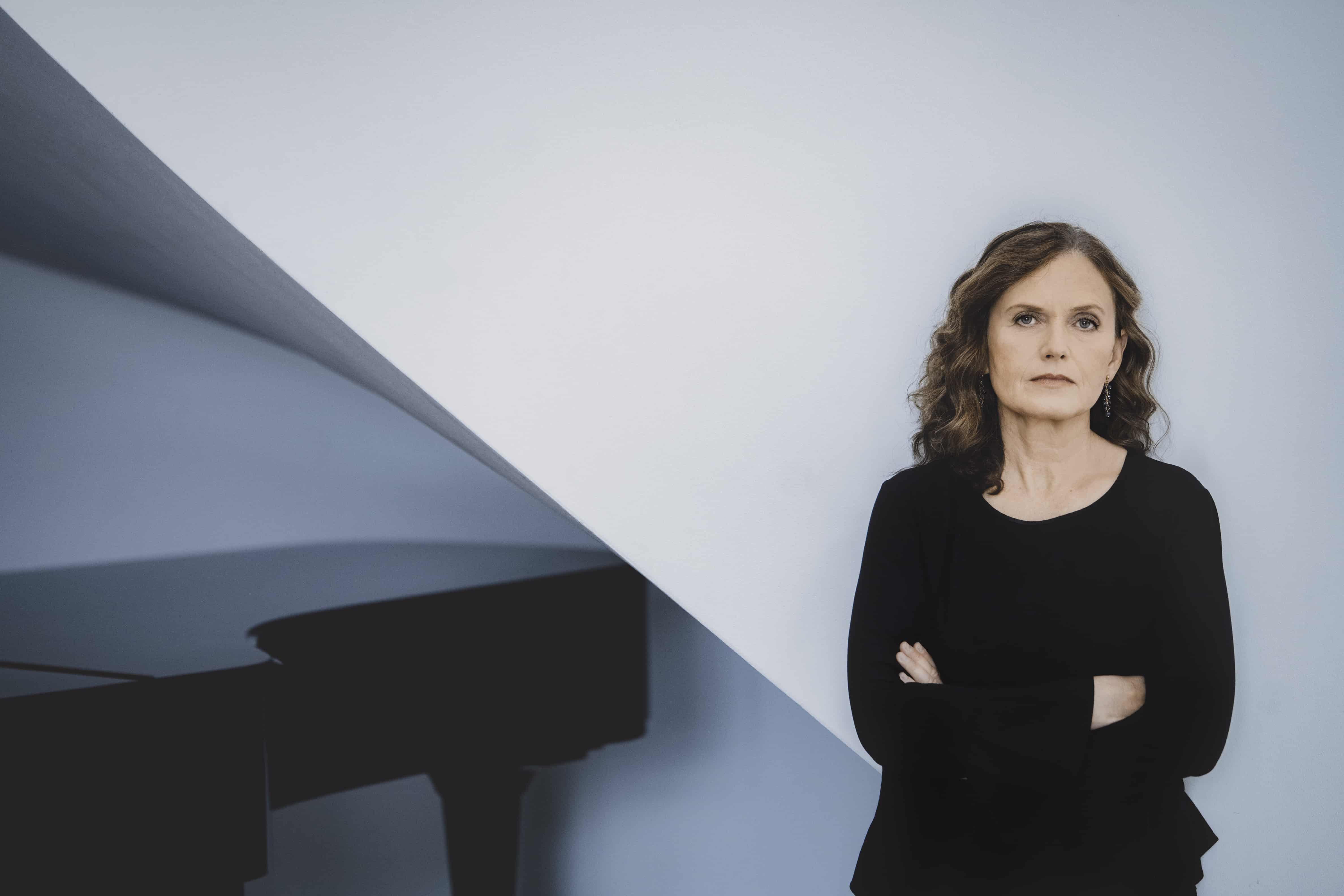 Artist’s photo